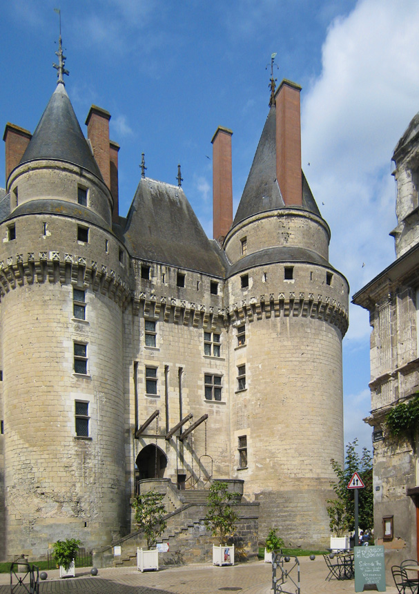 Château de Langeais, front with drawbridge